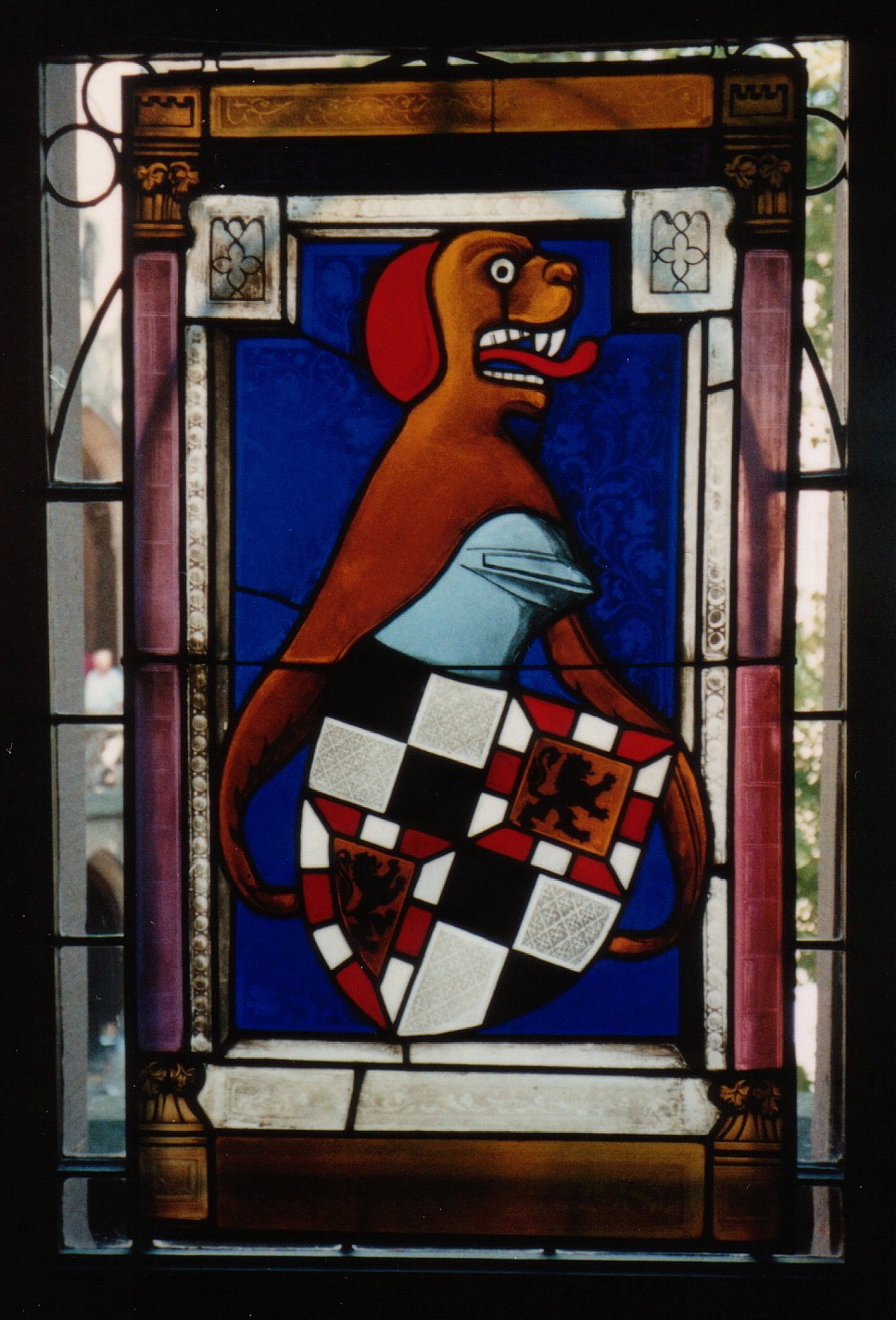 Coat of arms of the Hohenzollern family at Burg Hohenzollern in southern Germany.